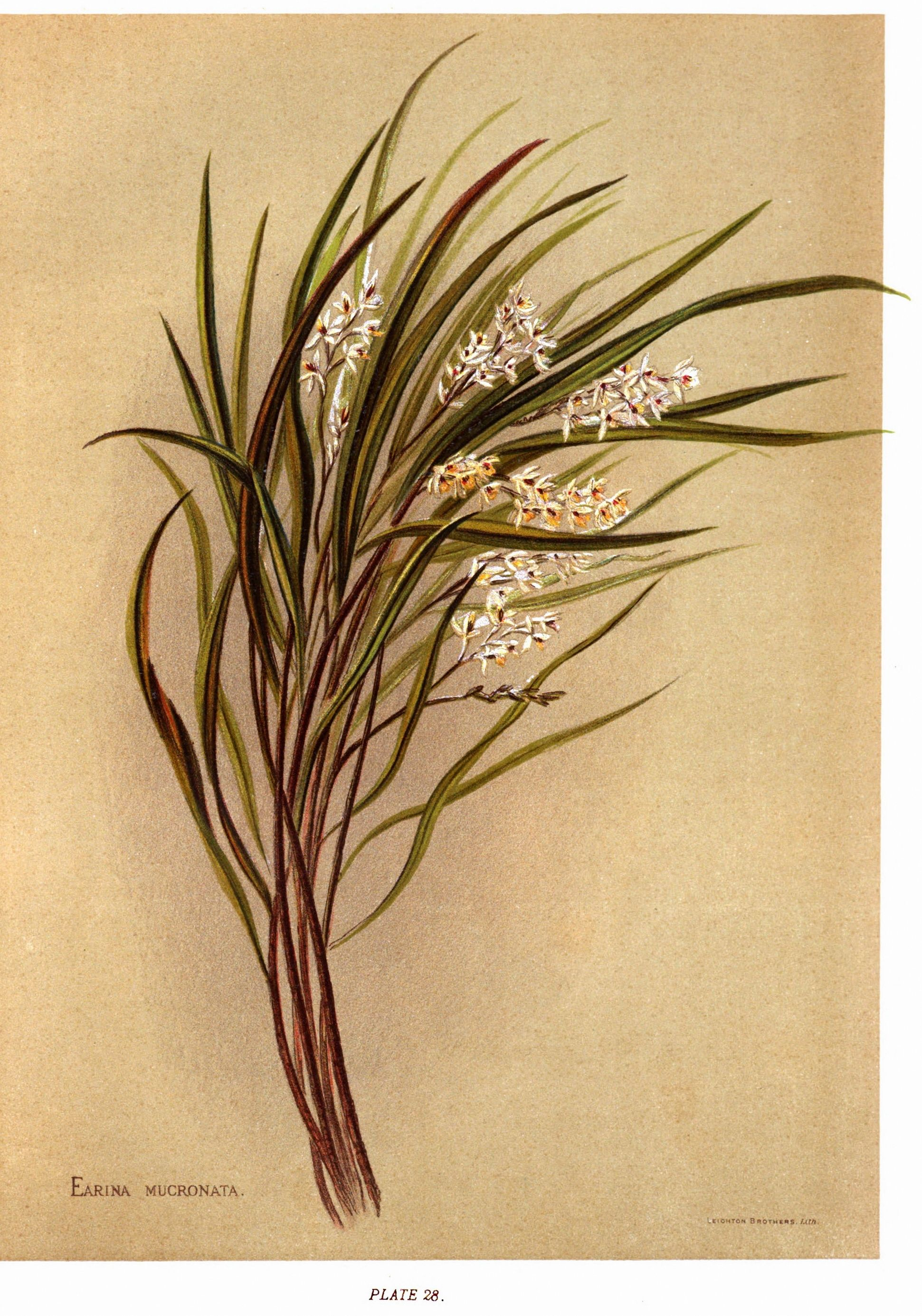 earina mucronata